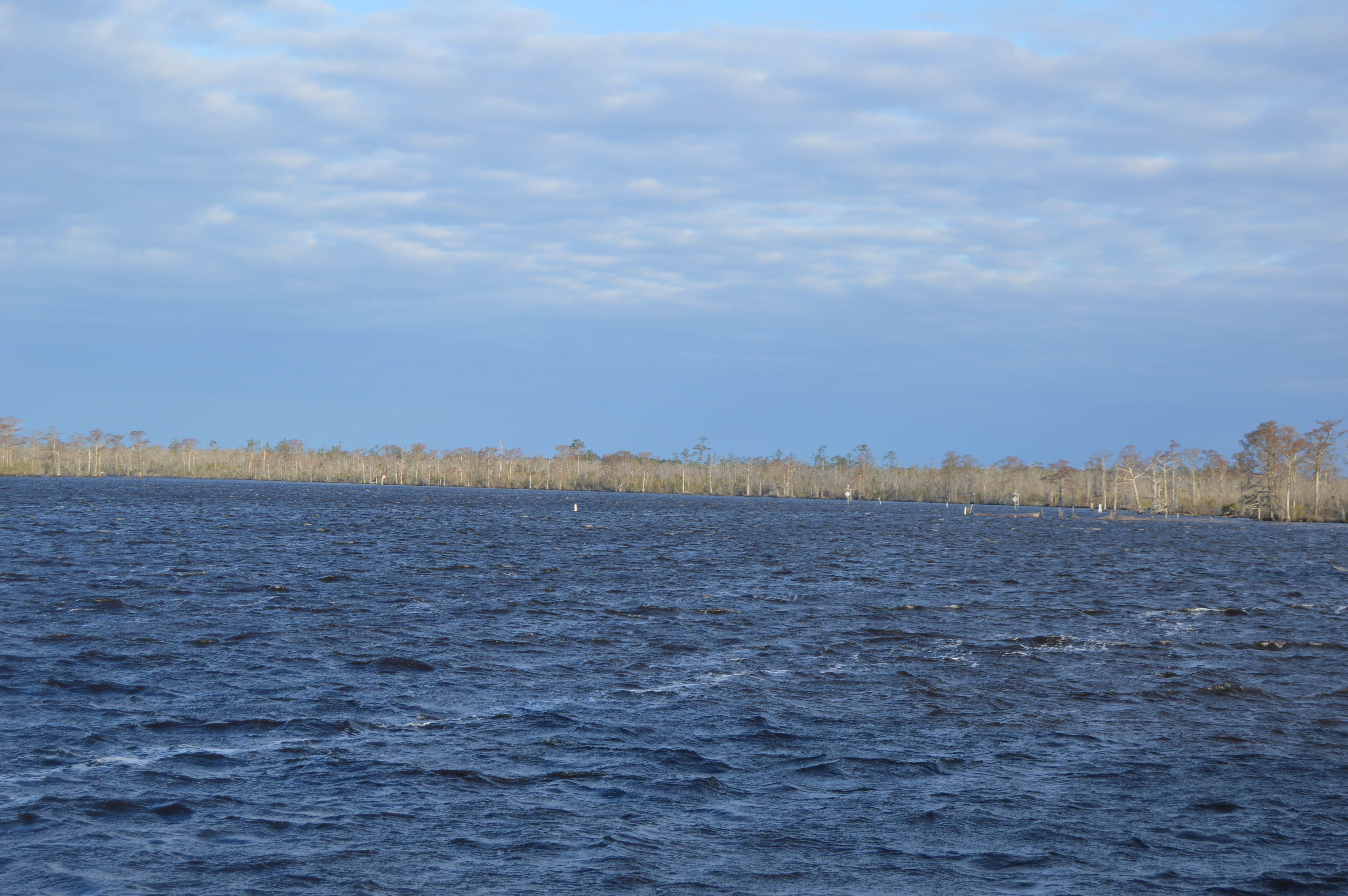 Looking northwest over the Scuppernong River from the foot of Main Street in Columbia, North Carolina, United States. The distant shore is part of Pettigrew State Park.